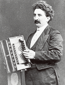 The Danish-Finnish accordionist Martin Paul (1843-1893).